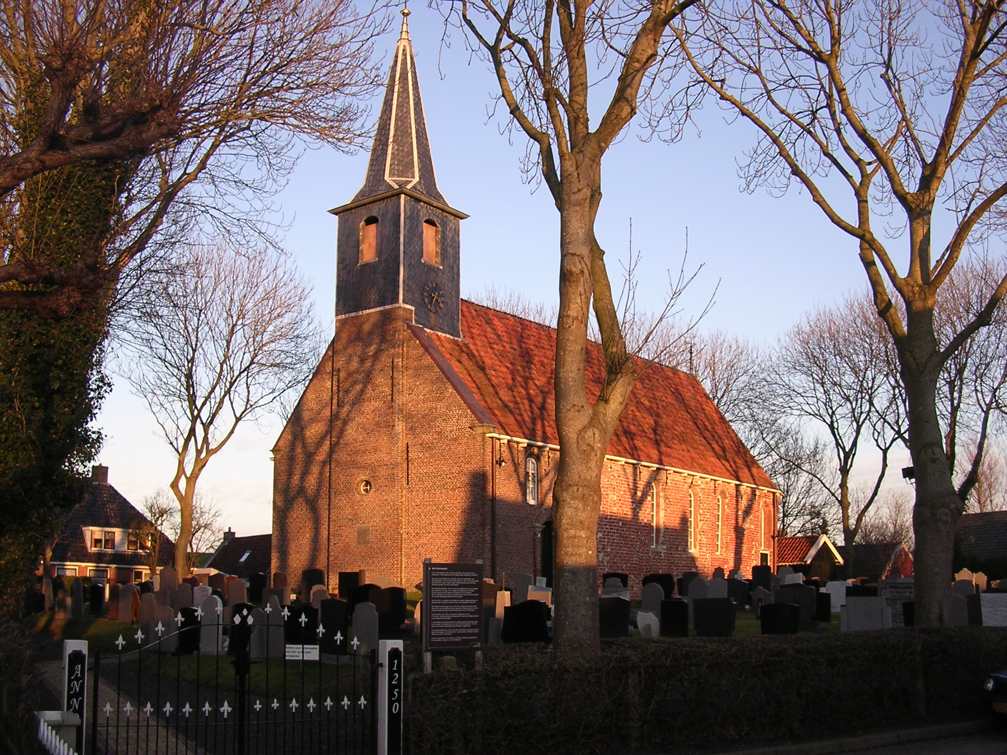 The Church of the village of Paesens